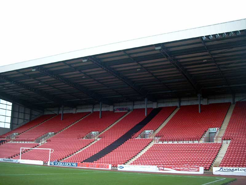 Photo taken inside Oakwell Ground with digital camara.